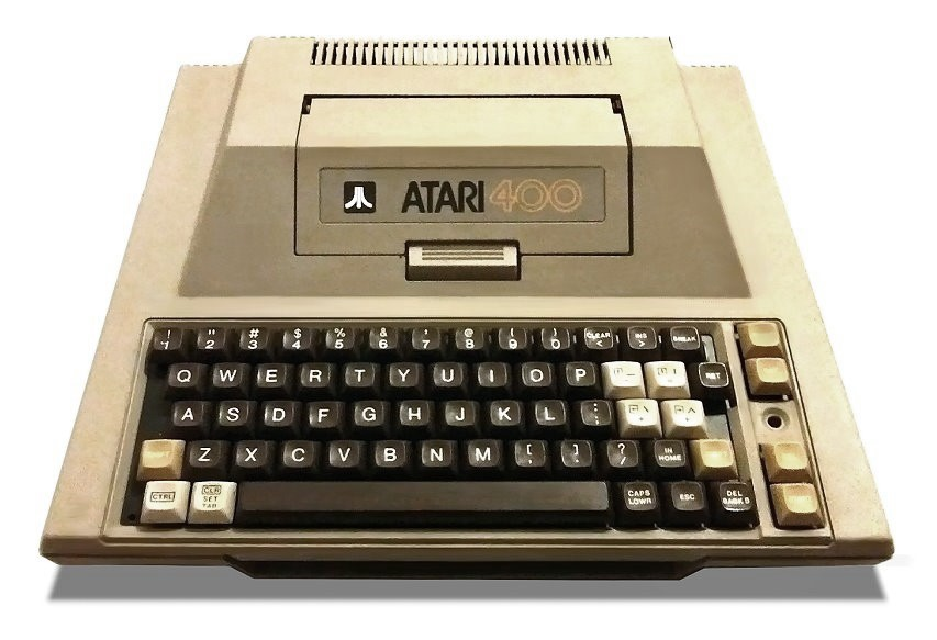 Atari 40 with keyboard upgrade (BKey)